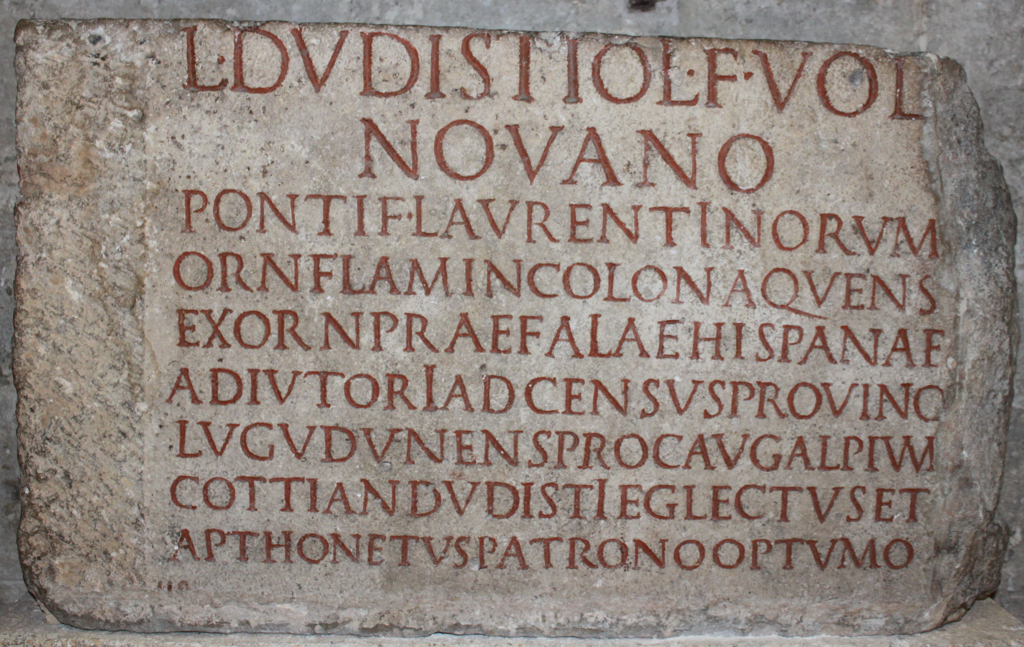 Ancient Roman inscription from Marseille (France), now in Musée Calvet, Avignon (France)